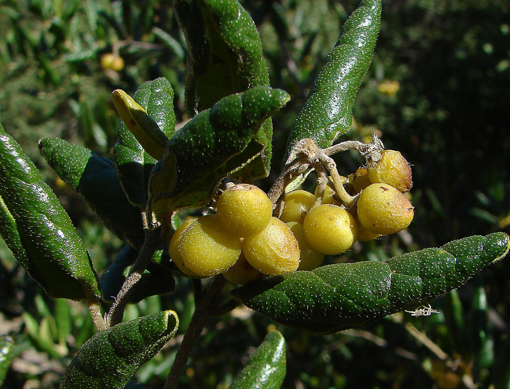 Fruit of the common Boldo tree. The leaves make a popular tea in central and southern Chile. In context at